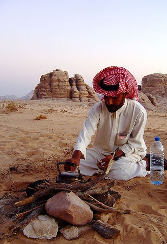 A young Bedouin man called 'Nasser' lighting a fire in Wadi Rum, Jordan